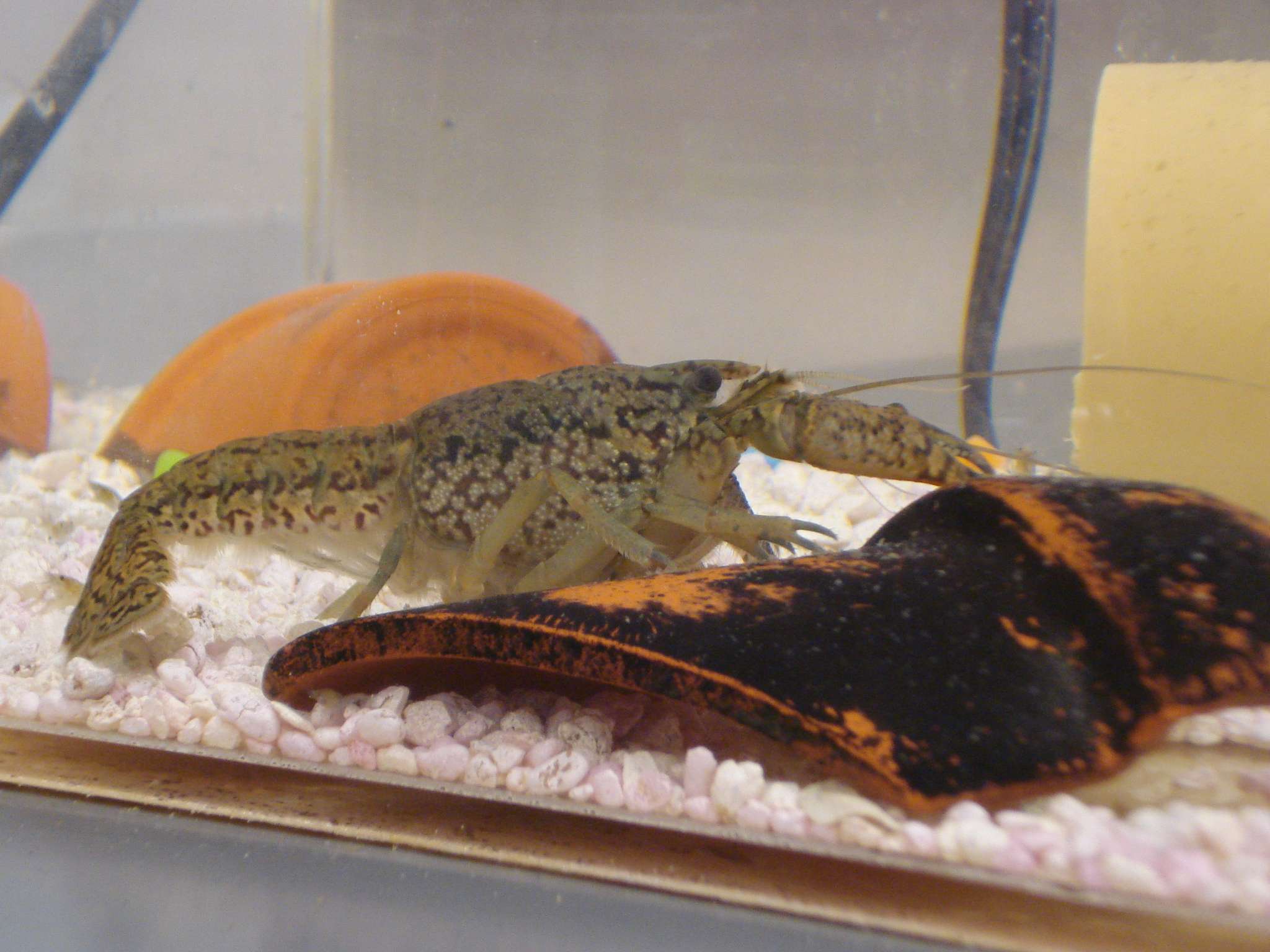 Adult Marmorkrebs (marbled crayfish).